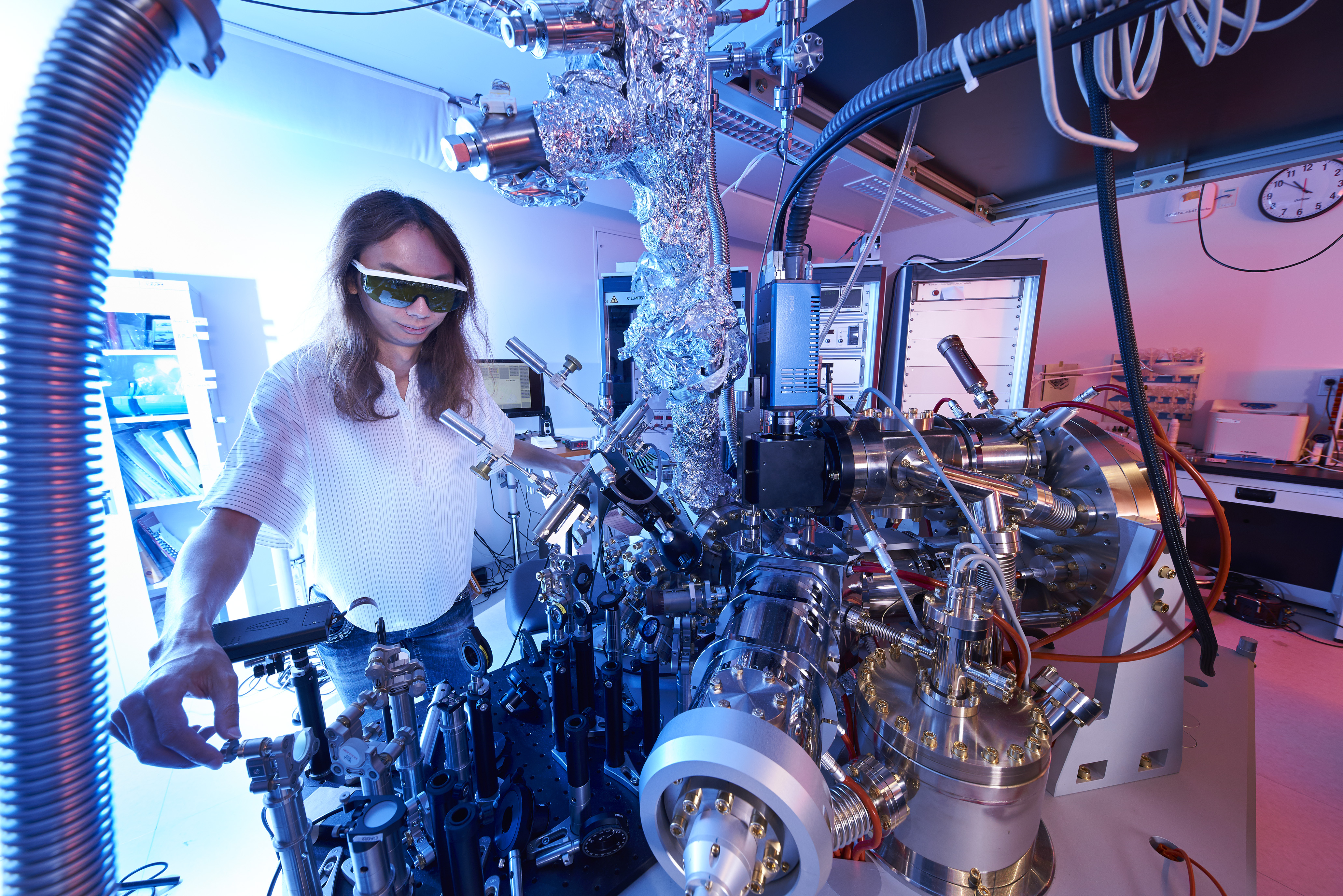 The Femtosecond Spectroscopy Unit uses its microscope and laser system to capture the motion of electrons | Femtosecond Spectroscopy Unit | フェムト秒分光法ユニット | ケシャヴ・ダニ